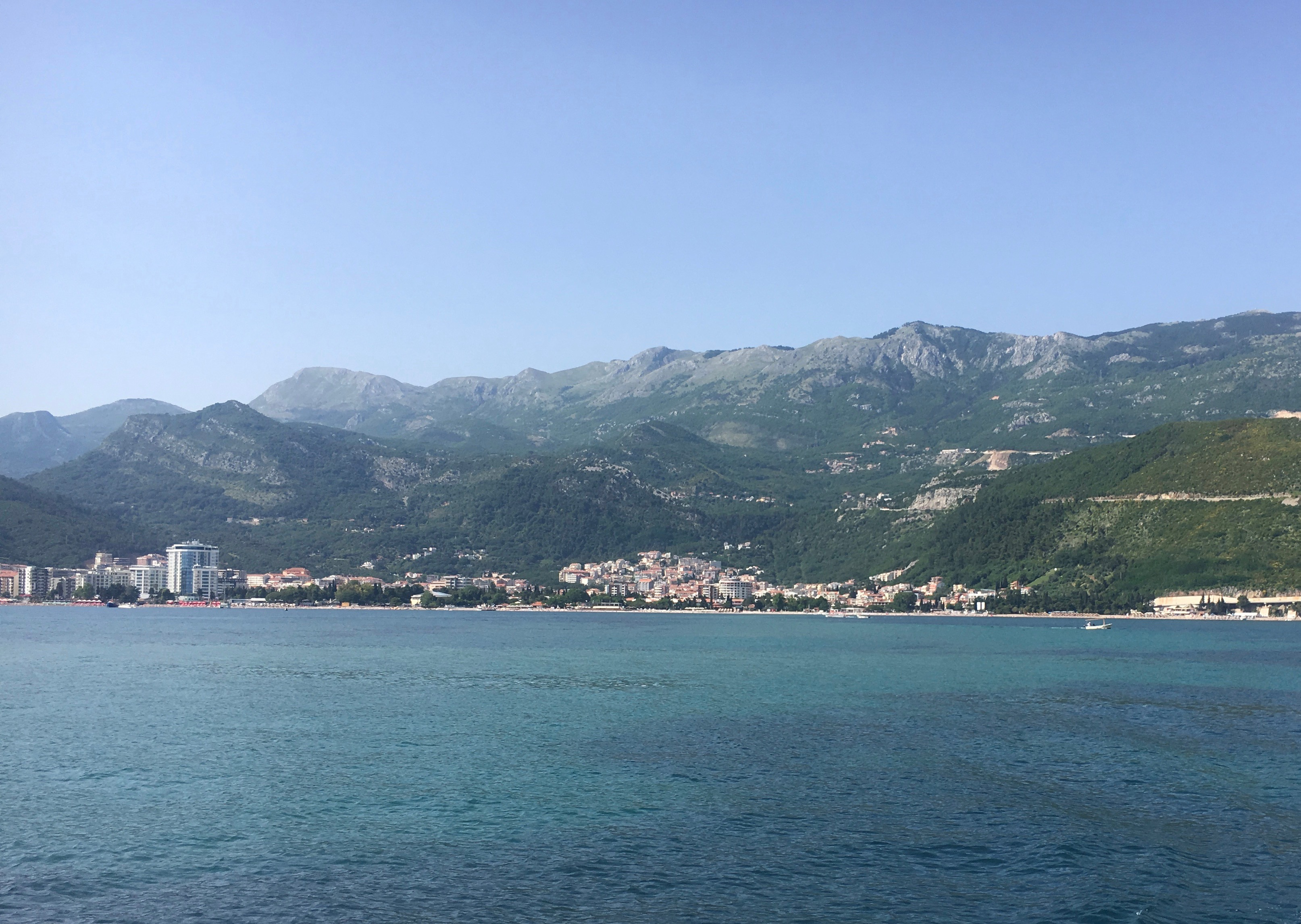 Budva from the see, Sveti Nicola direction